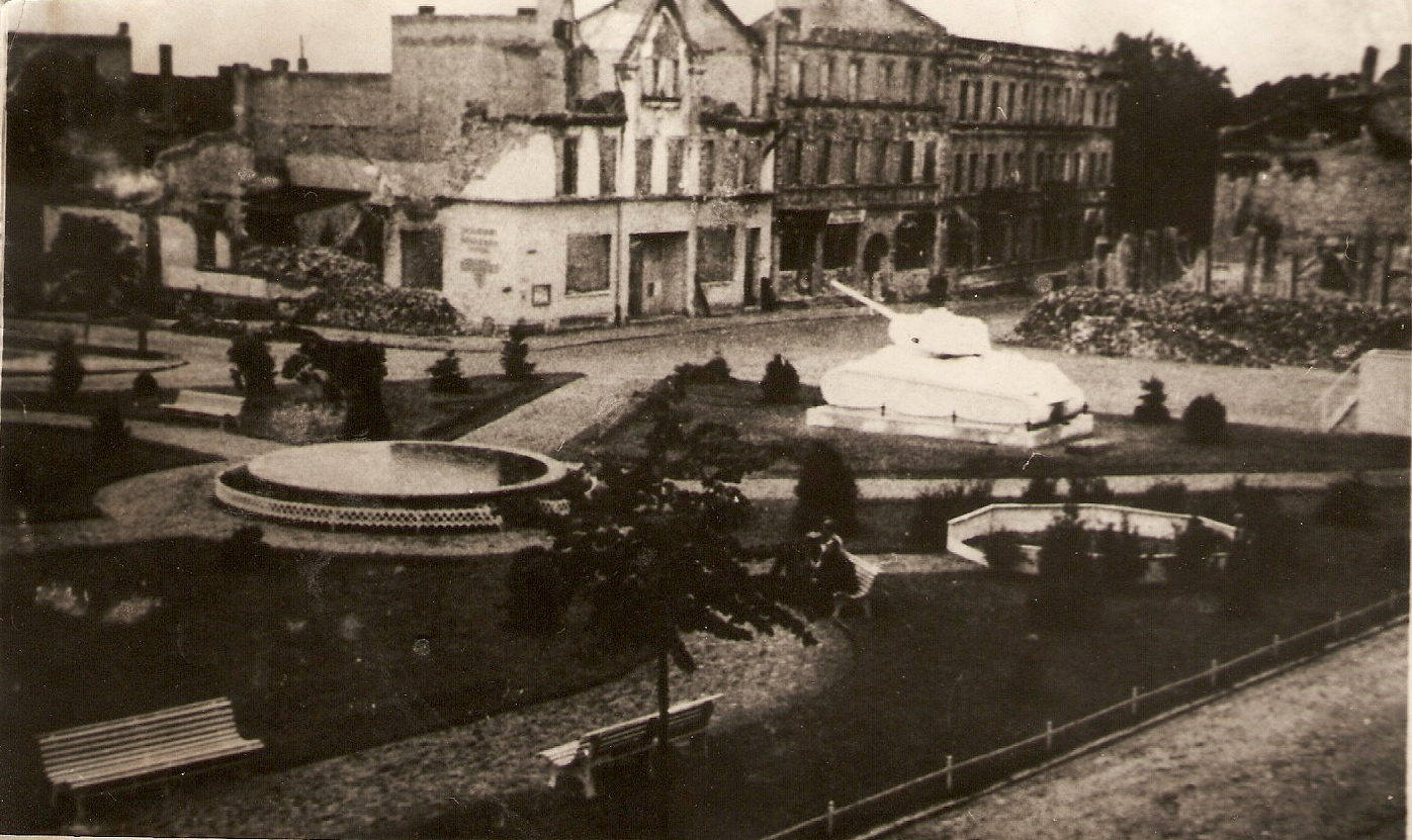 Buildings pulled down by Red Army soldiers.